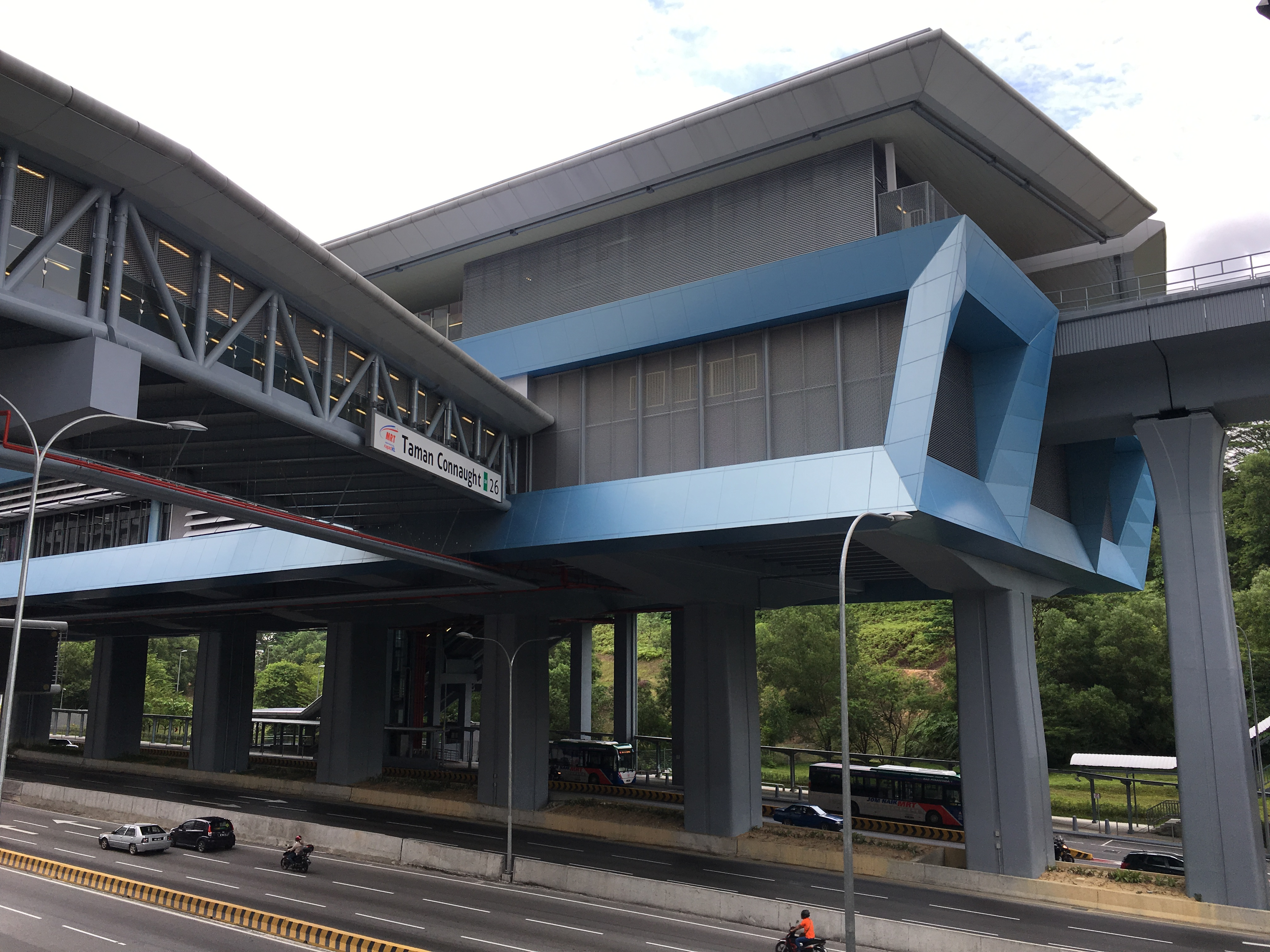 View of the Taman Connaught MRT Station above Jalan Cheras